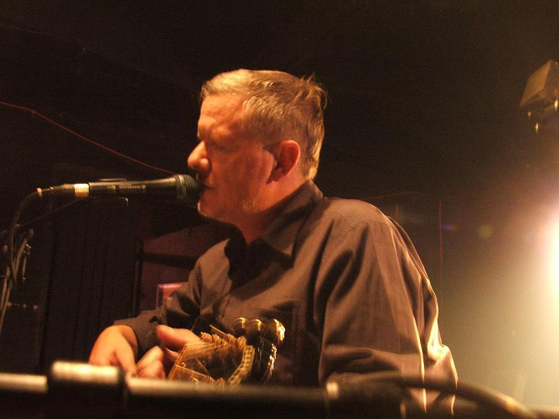 Michael Gira podczas koncertu Angel Of Light w Warszawie w "No Mercy", 8 października 2005 roku. Michael Gira and The Angels of Light. Live in Warsaw (Poland). 8-th october 2005.